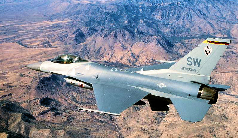 USAF F-16C block 50 #91-0365 flown by Capt Ed 'Pinto' Casey from the 78th FS flies over mountains bound for Davis-Monthan AFB to attend the 2002 USAF Heritage Conference. [USAF photo by SSgt. Greg L. Davis]